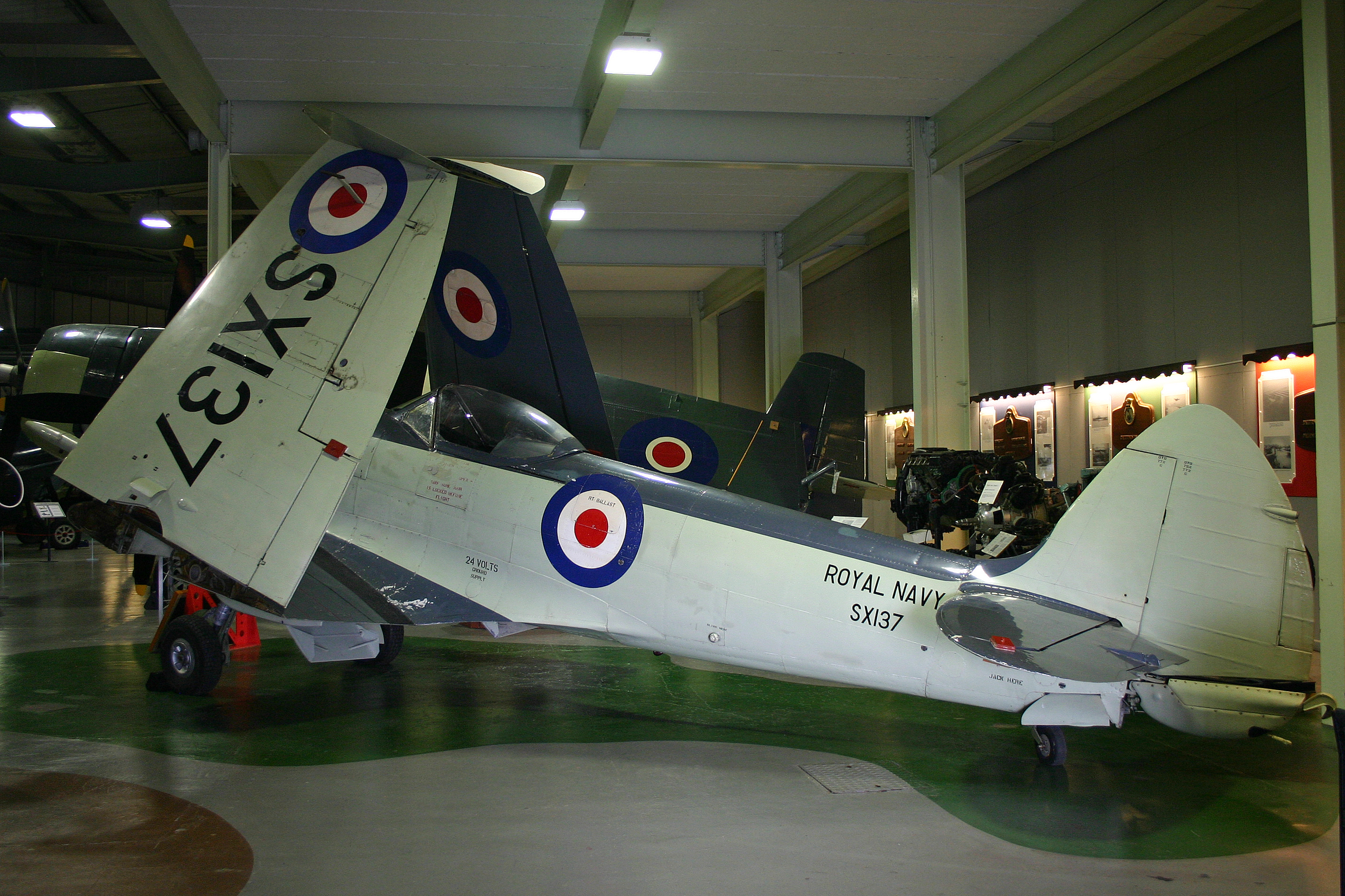 Built by Westlands at nearby Yeovil. msn WASE1 5325. FAA Museum Yeovilton. 15-6-2011